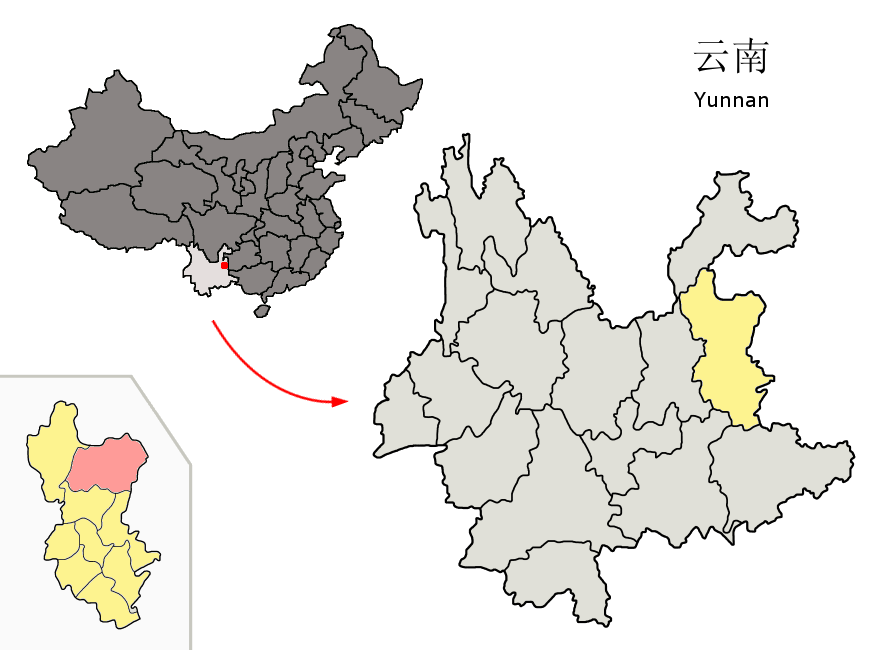 Location of Xuanwei City (pink) and Qujing Prefecture (yellow) within Yunnan province of China Map drawn in september 2007 using various sources, mainly : Yunnan province administrative regions GIS data: 1:1M, County level, 1990 Yunnan Counties map from